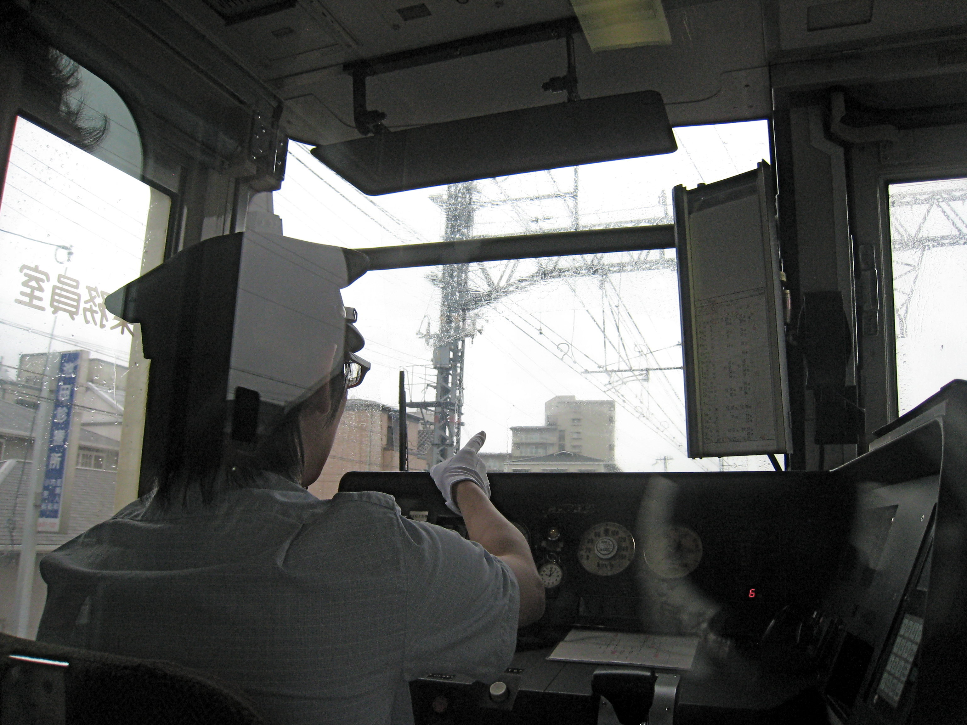 As the train accelerates and decelerates the conductor reaches out and points in the direction of travel- I was told it is some sort of ritual of connecting movement to the action. There was also a ritualistic pointing and sliding to the correct spot on the schedule (hanging to the right)